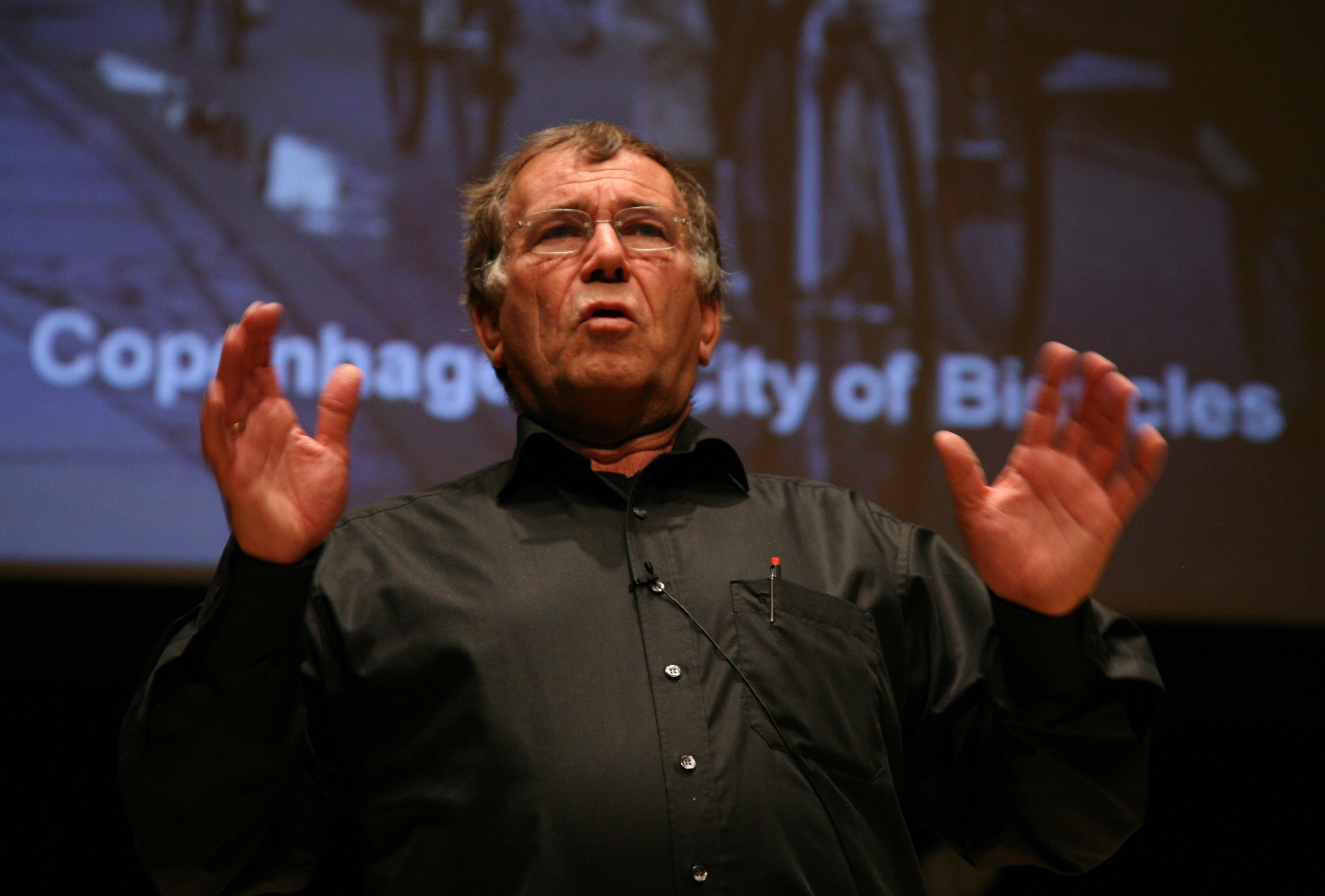 Jan Gehl, Danish architect and urban design consultant, at the Eurogel2006 conference in Copenhagen.